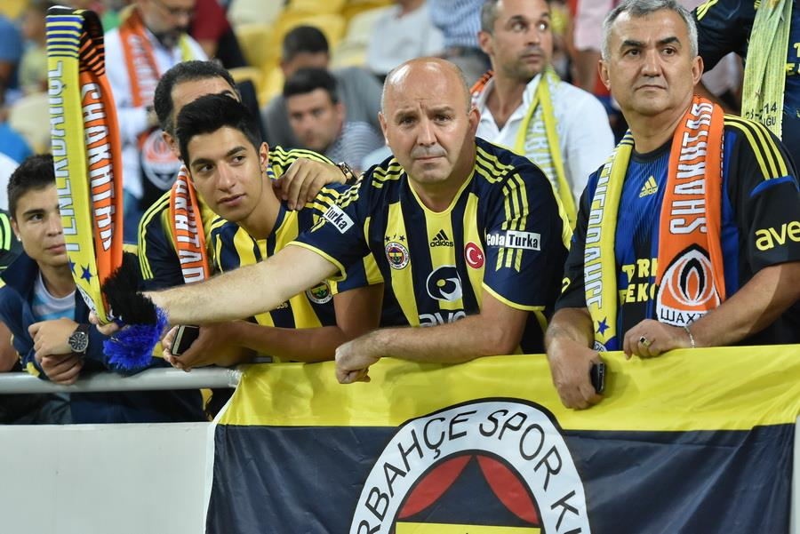 Shakhtar Donetsk - Fenerbahçe 05 August 2015 Champions League Third qualifying round